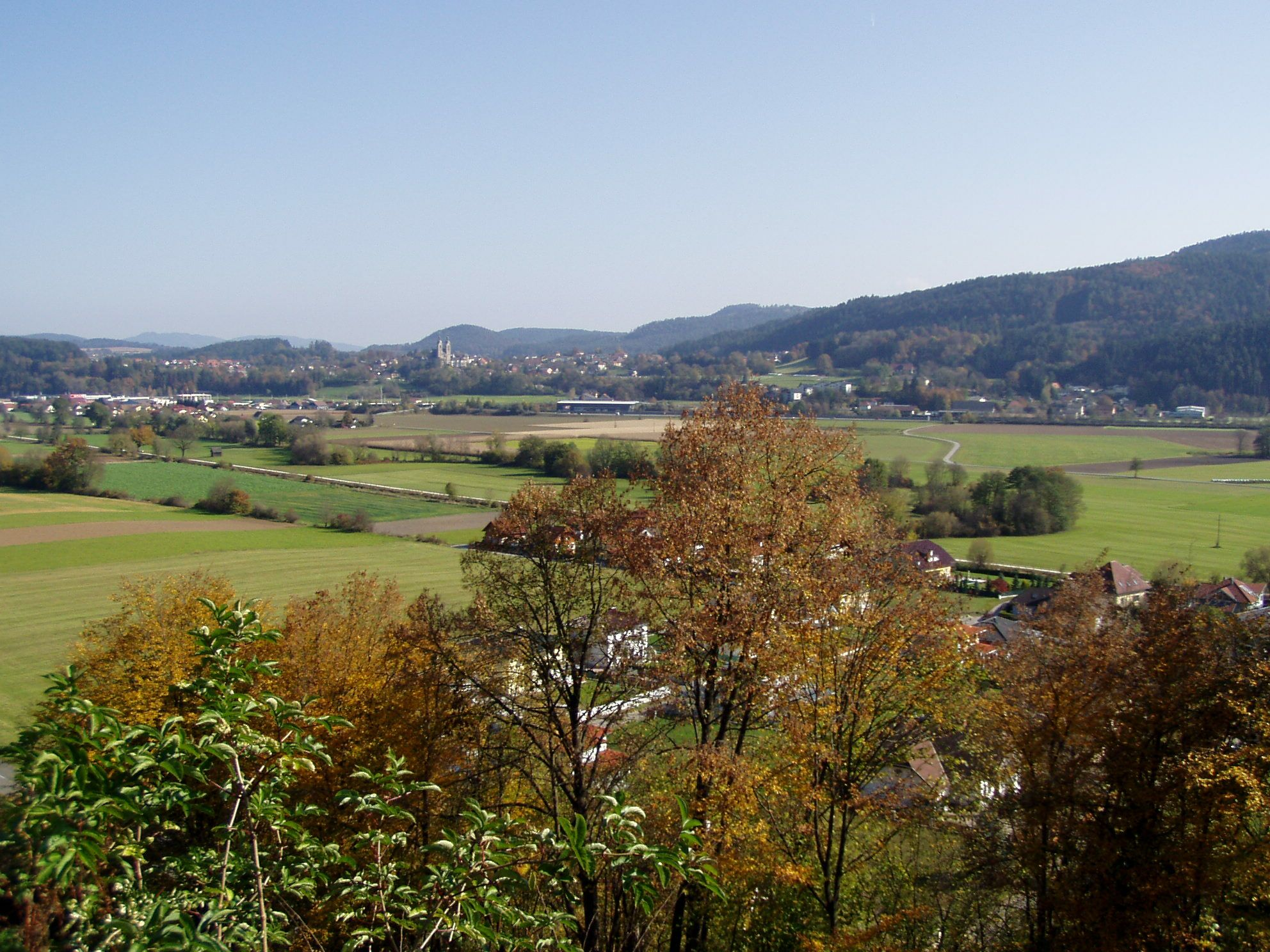 Zollfeld, Blick von Karnburg nach Maria Saal/ Zollfeld, Carinthia: View from Karnburg towards Maria Saal